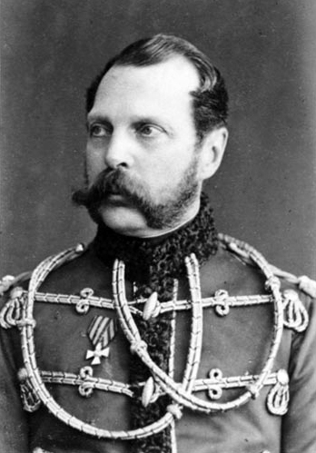 Russian Imperial Family Photo.